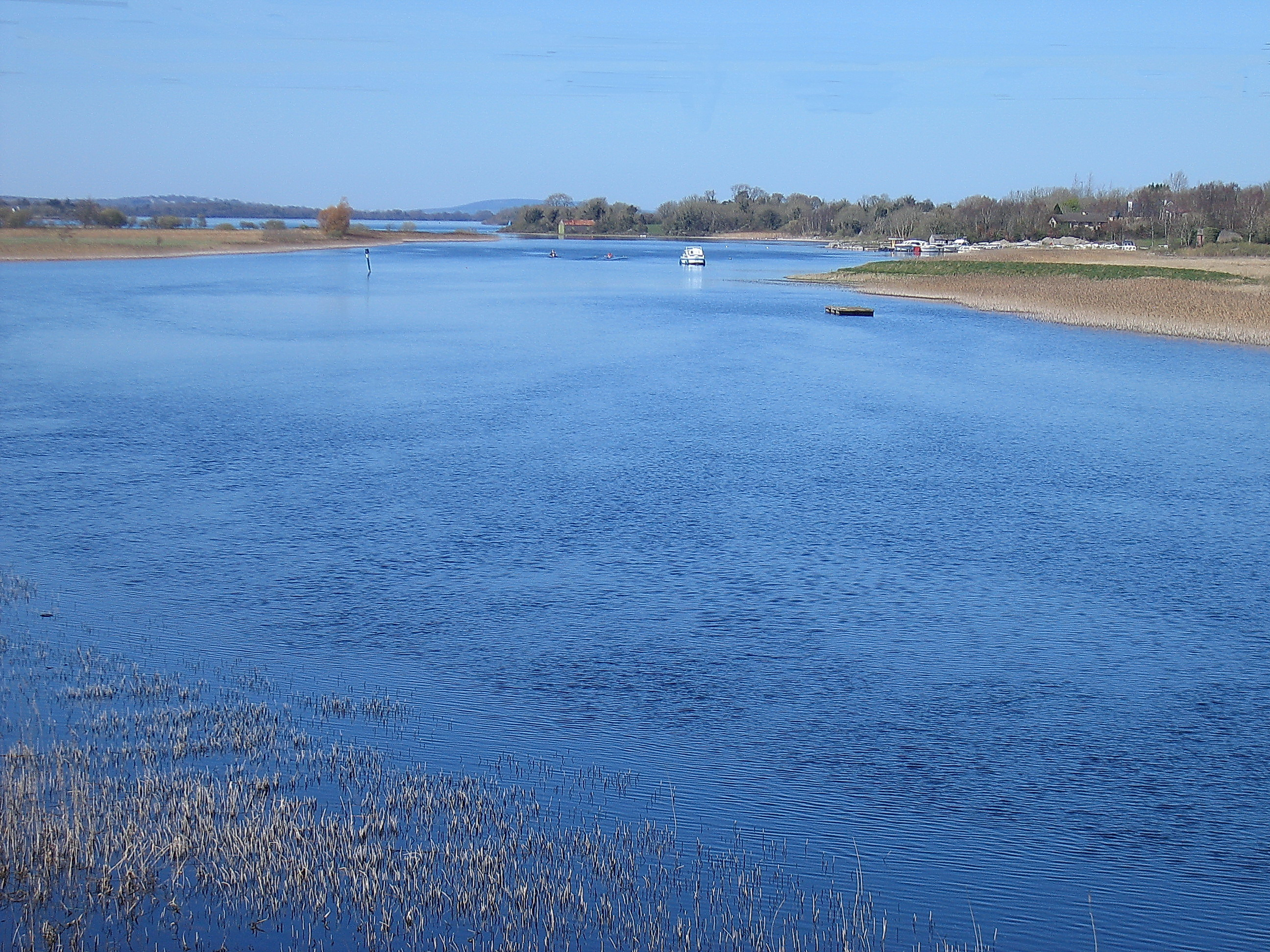 Lough Ree funnels into the River Shannon north of Athlone, Ireland